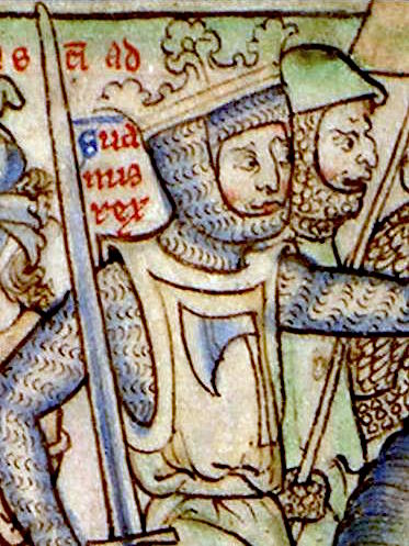 Sweyn Forkbeard, detail of a mid-13th-century miniature. Cambridge University Library, Ee.3.59, fol. 4r